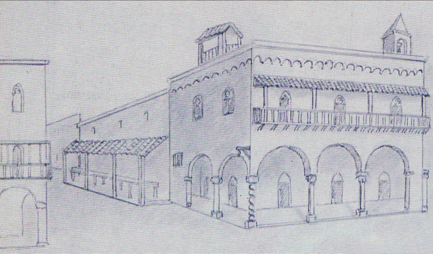 City Hall - Sassari - Sardinia - XIII century